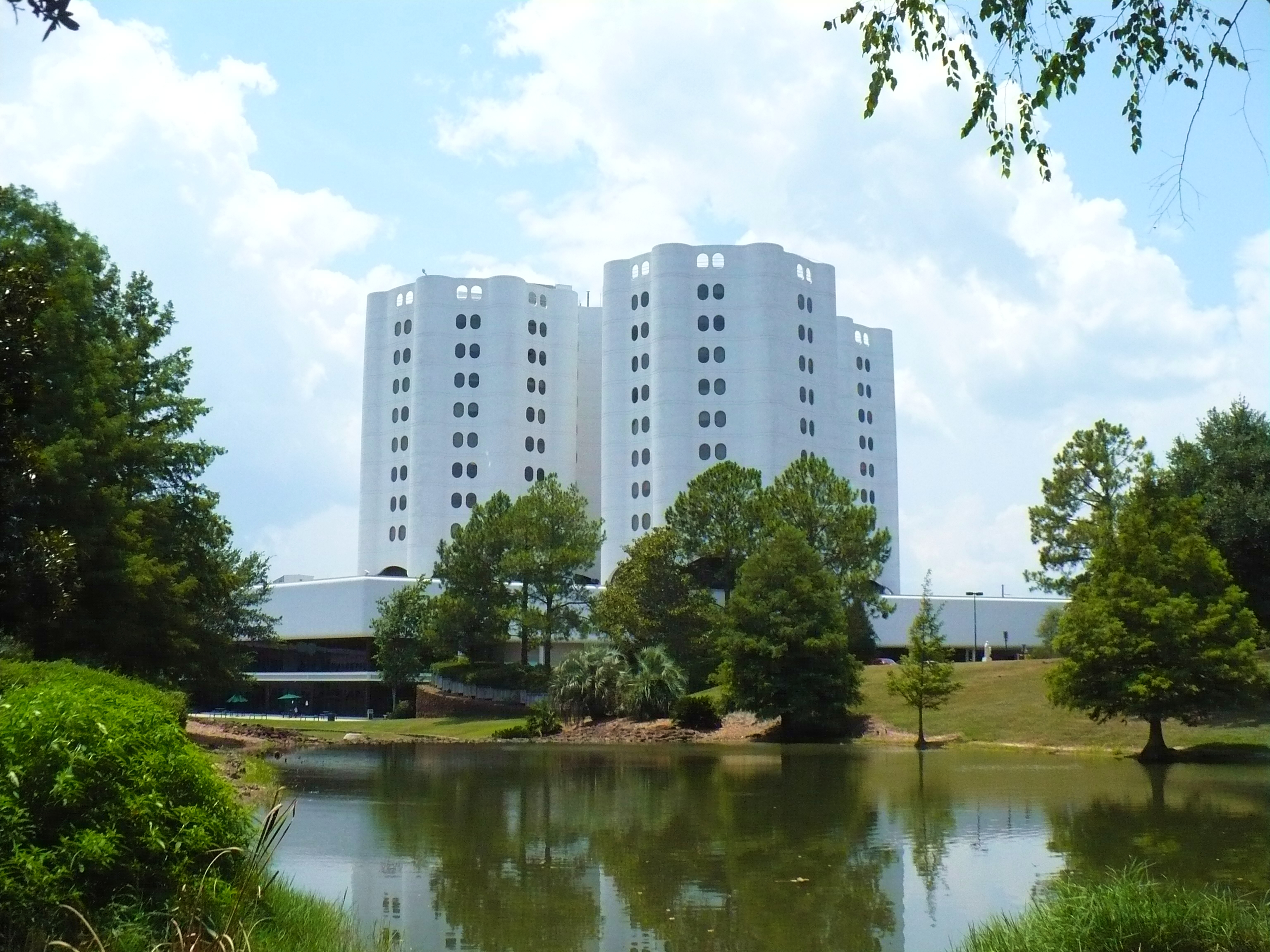 Providence Hospital at 6801 Airport Boulevard in Mobile, Alabama. Designed by Bertrand Goldberg and built 1982-1988. The design features an eight-story bed tower with 350 beds atop a three-story base.